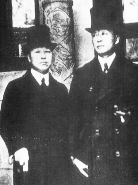 Syngman Rhee and Philip Jaisohn in Washington, D.C, 1921